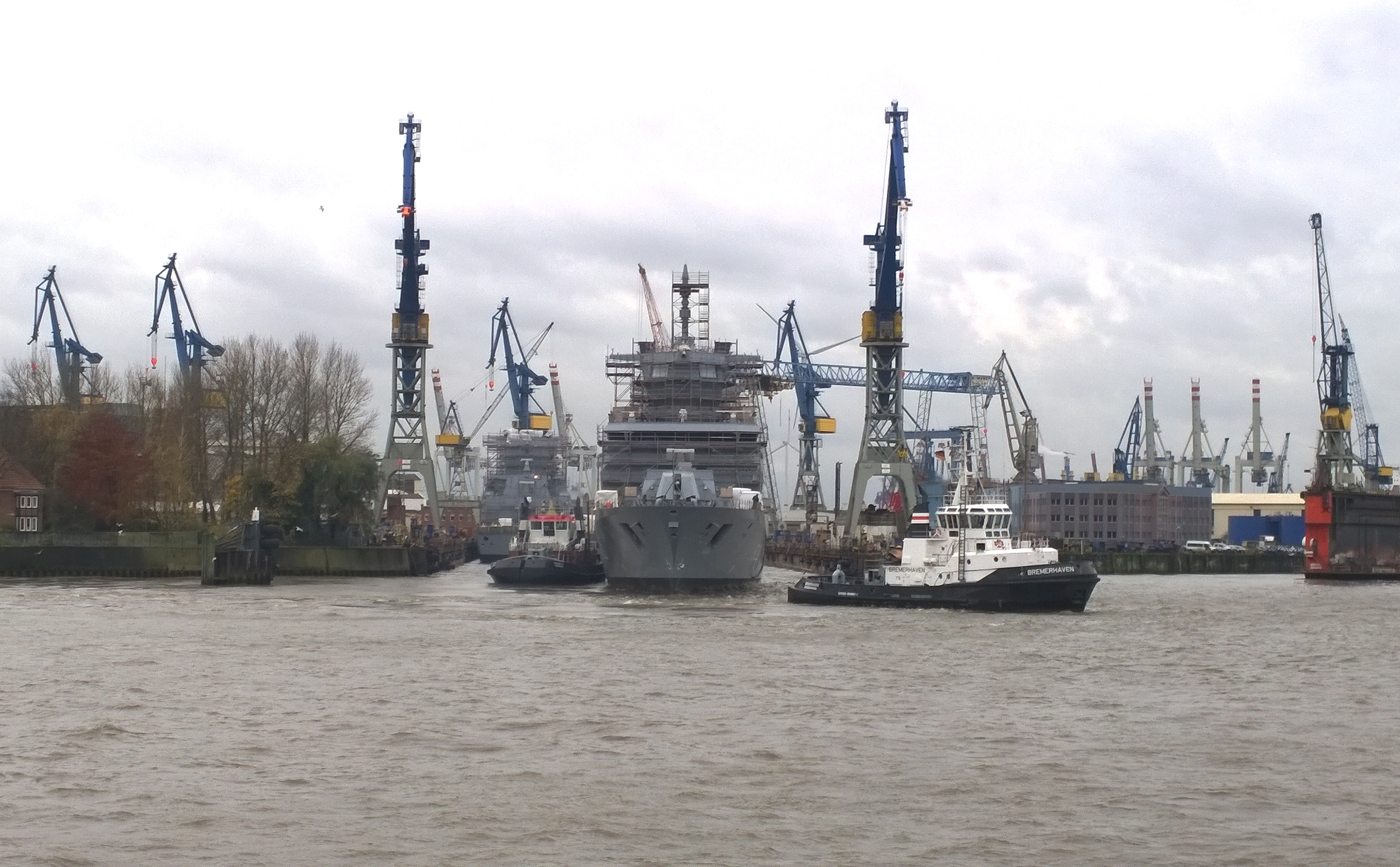 The current flood of the Elbe presses the frigate to the left bank. Free tractor Bugsier 18 now helps the dockingFree tractor Bugsier 18 also helps the docking maneuver